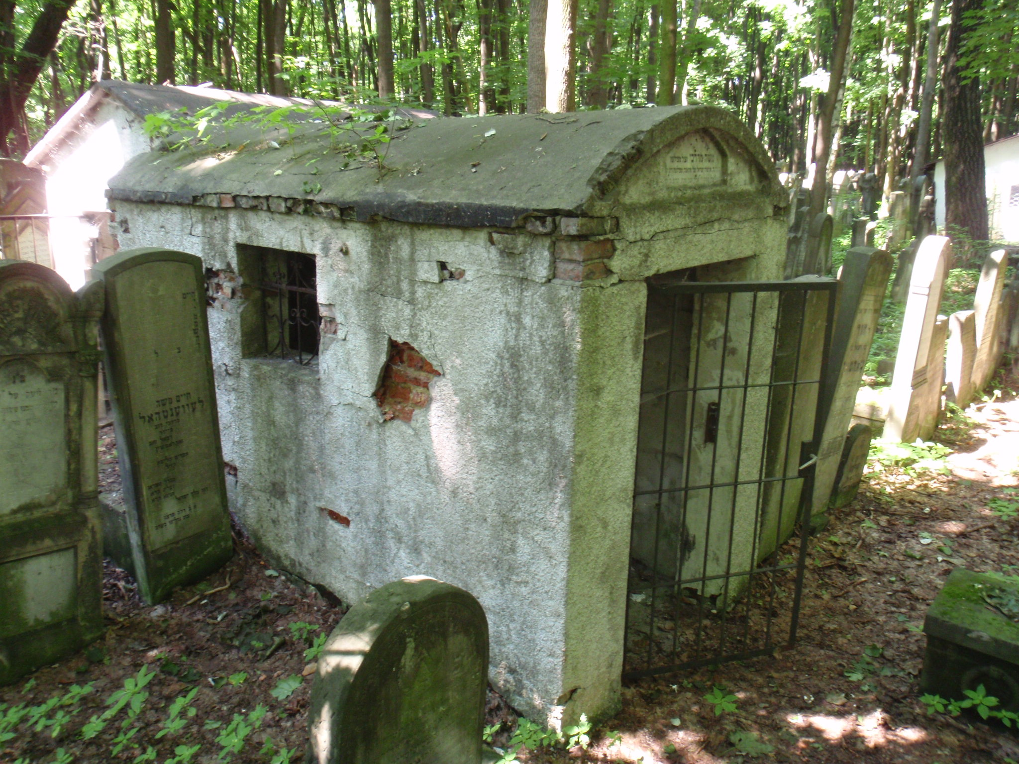 Ohel of Mojżesz Mordechaj Morgenstern tzadik from Pilawa